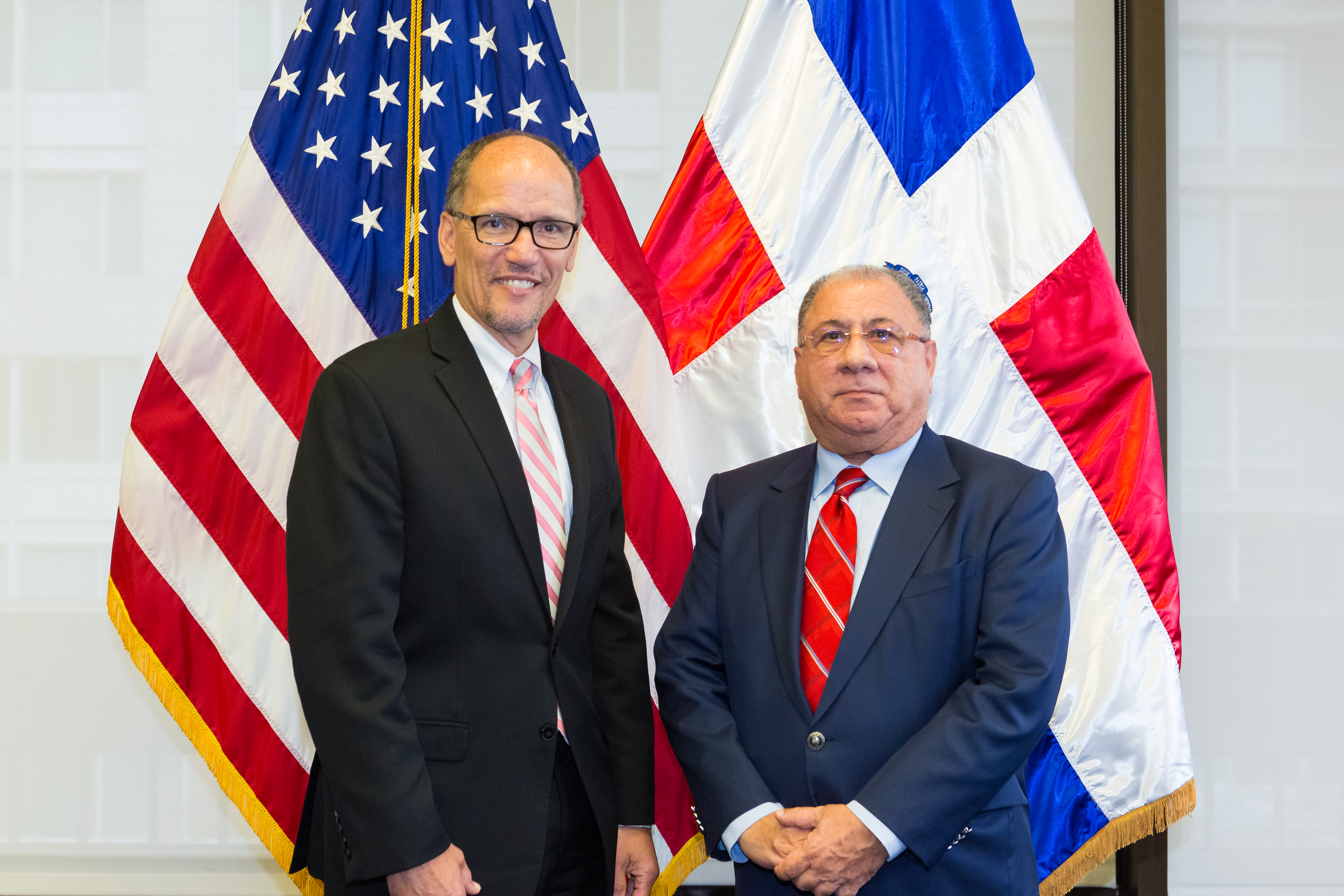 28 September 2016 - Washington, DC - US Secretary of Labor Thomas E. Perez visits with Dominican Republic Minister of Interior and Police Labor Jose Ramon Fadul. Official Department of Labor Photograph*** Photographs taken by the federal government are generally part of the public domain and may be used, copied and distributed without permission. Unless otherwise noted, photos posted here may be used without the prior permission of the U.S. Department of Labor. Such materials, however, may not be used in a manner that imply any official affiliation with or endorsement of your company, website or publication. Photo Credit: Department of Labor